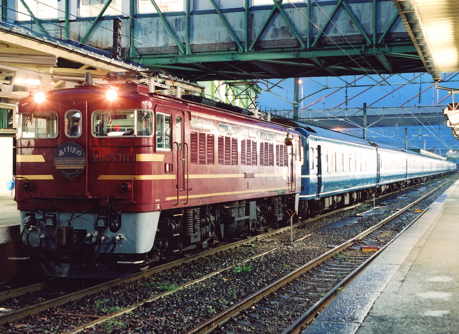 JNR Class ED75-700 AC electric locomotive ED75 711 on an Akebono overnight sleeping car service at Aomori Station